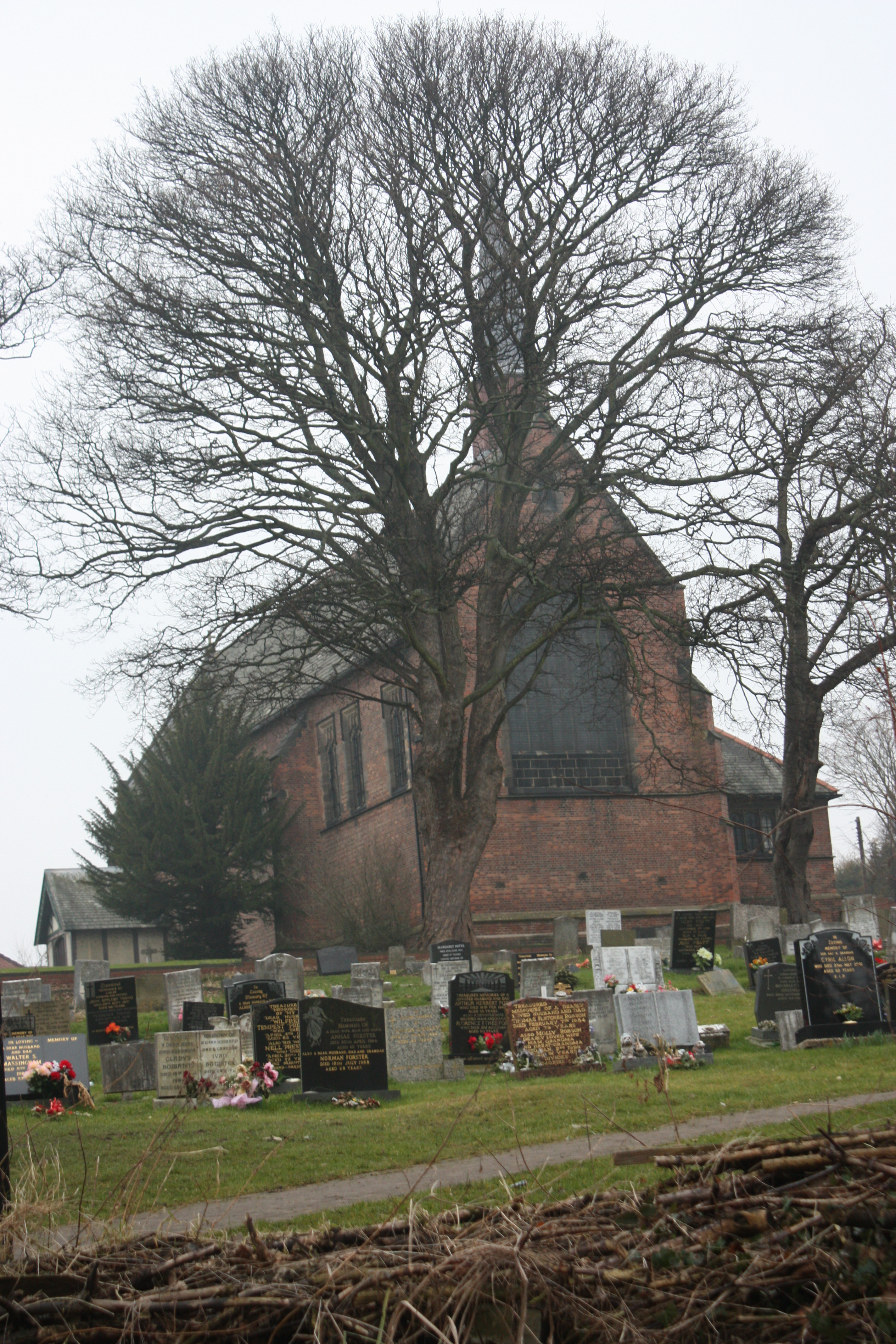 St George's parish church, Harraton, Washington, Tyne and Wear, seen from the southeast